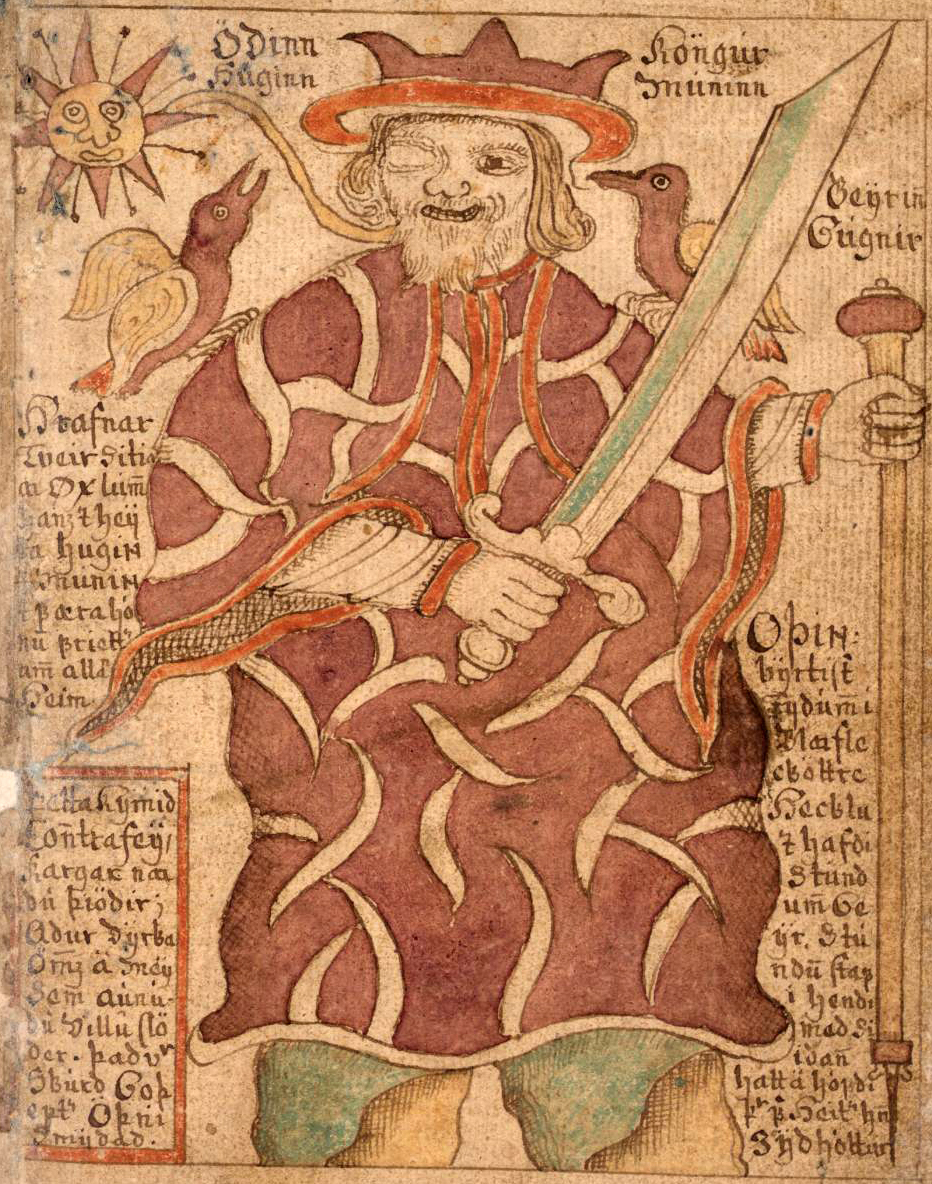 An illustration of the god Odin with his two ravens Huginn and Muninn, from an Icelandic 18th century manuscript.